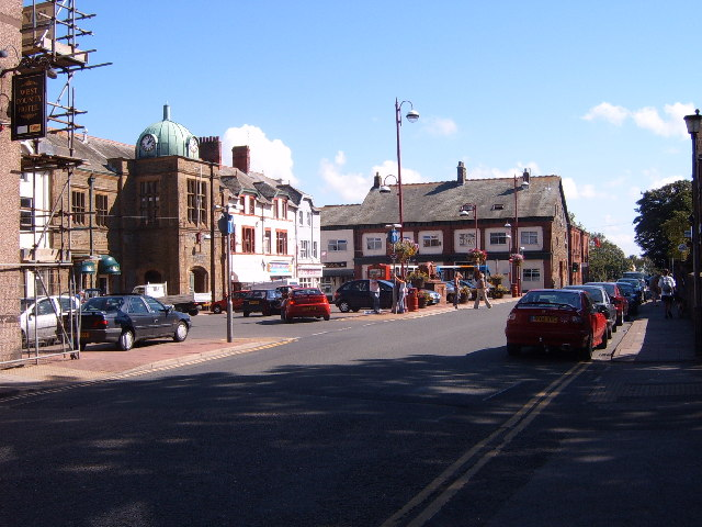 Millom market place.